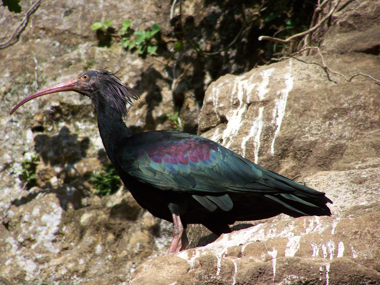 Bald Ibis at the Réserve zoologique de Calviac, near Sarlat (France)